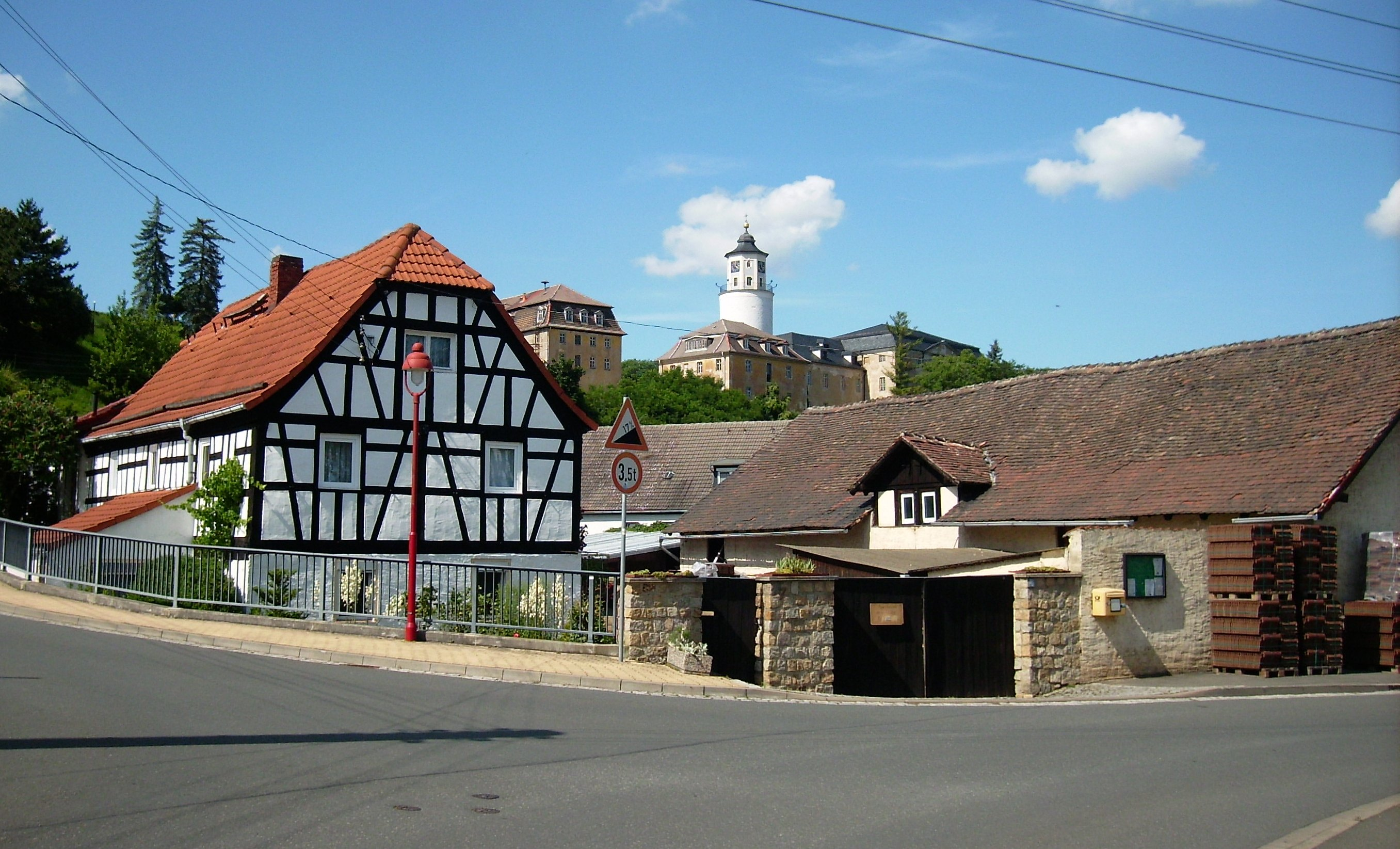 View of the castle of Crossen an der Elster (district of Saale-Holzland-Kreis, Thuringia) from the village